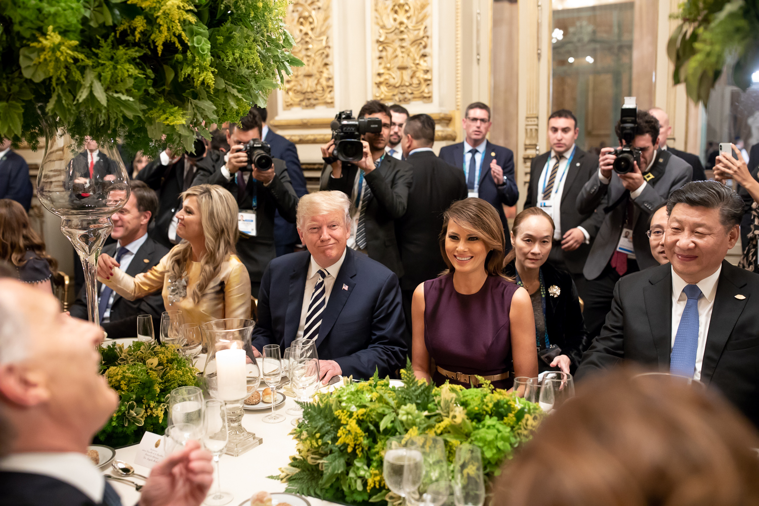 President Donald J. Trump and First Lady Melania Trump join fellow G20 leaders, spouses and guests Friday evening, Nov. 30, 2018, at the Teatro Colon in Buenos Aires, Argentina. (Official White House Photo by Andrea Hanks)